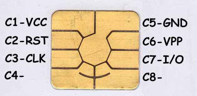 Close up of contacts on a Smart card with signal names